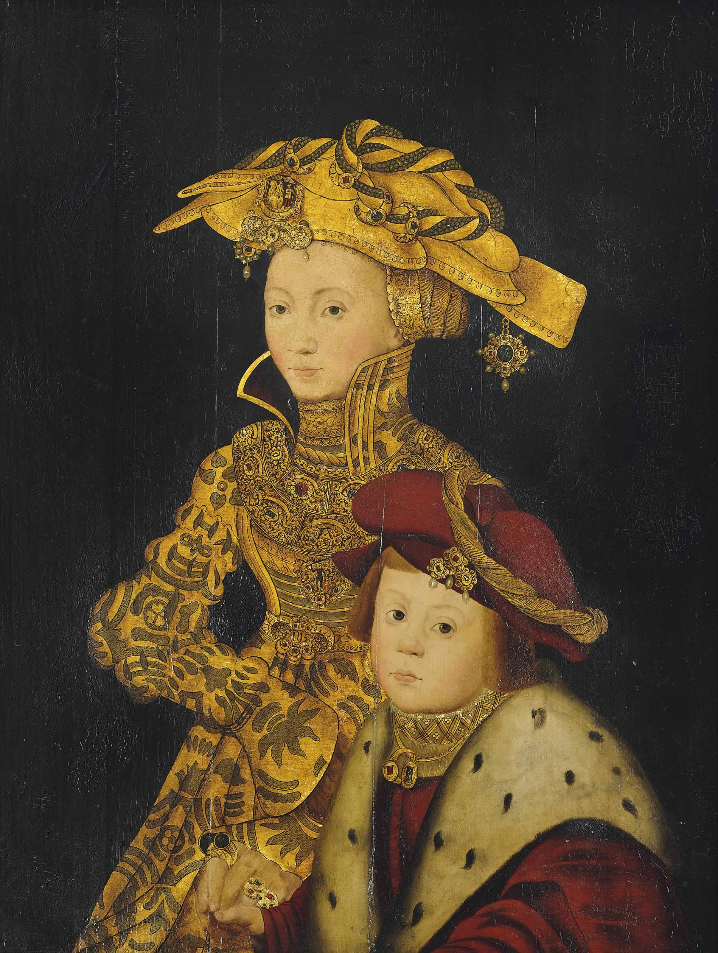 Portrait of a lady and her son, traditionally identified as Sibylle of Cleves (1512-1554) and one of her sons: the lady three-quarter-length, in a gold-embroidered dress and a jeweled hat, and the son, half-length, in an ermine-trimmed red coat and a jeweled red hat